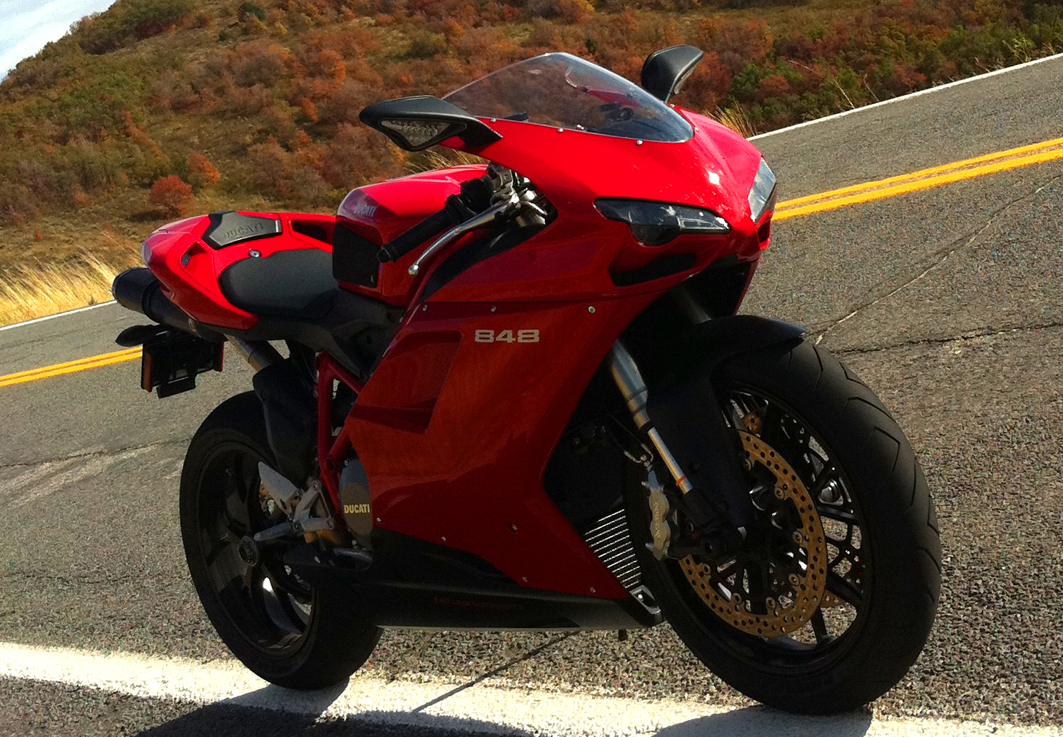 2009 Ducati 848